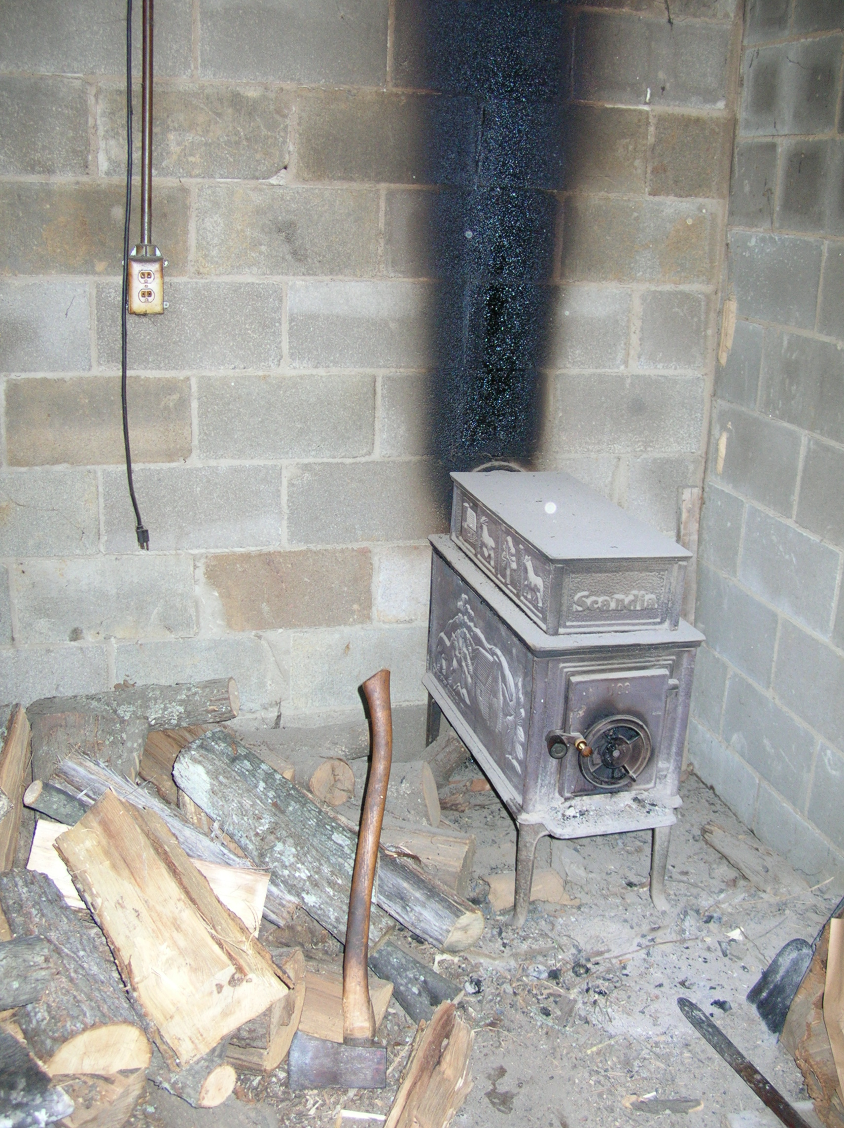 Wood burning stove at Benton's Country Hams smokehouse, where country hams, bacon, and sausage are slow smoked for many hours, imparting their distinct flavor.